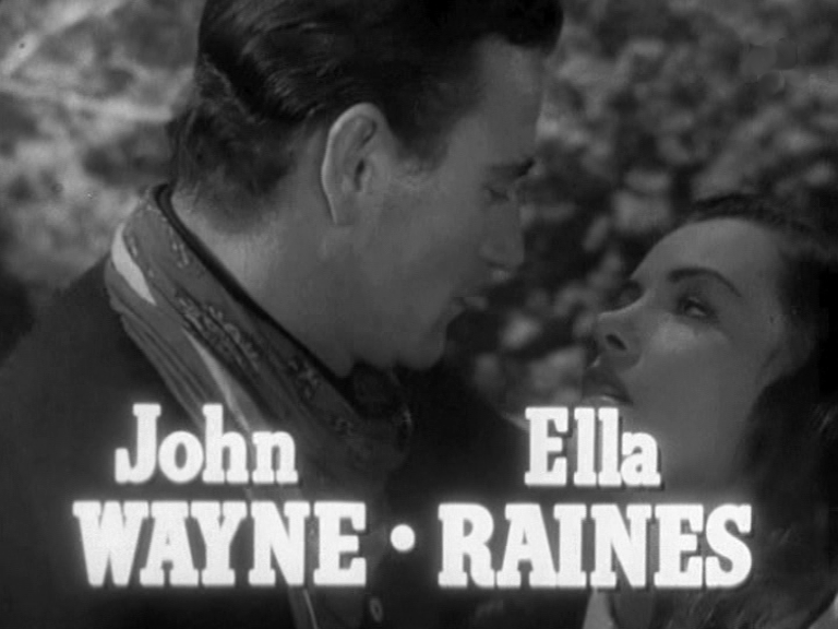 John Wayne and Ella Raines in Tall in the Saddle Trailer